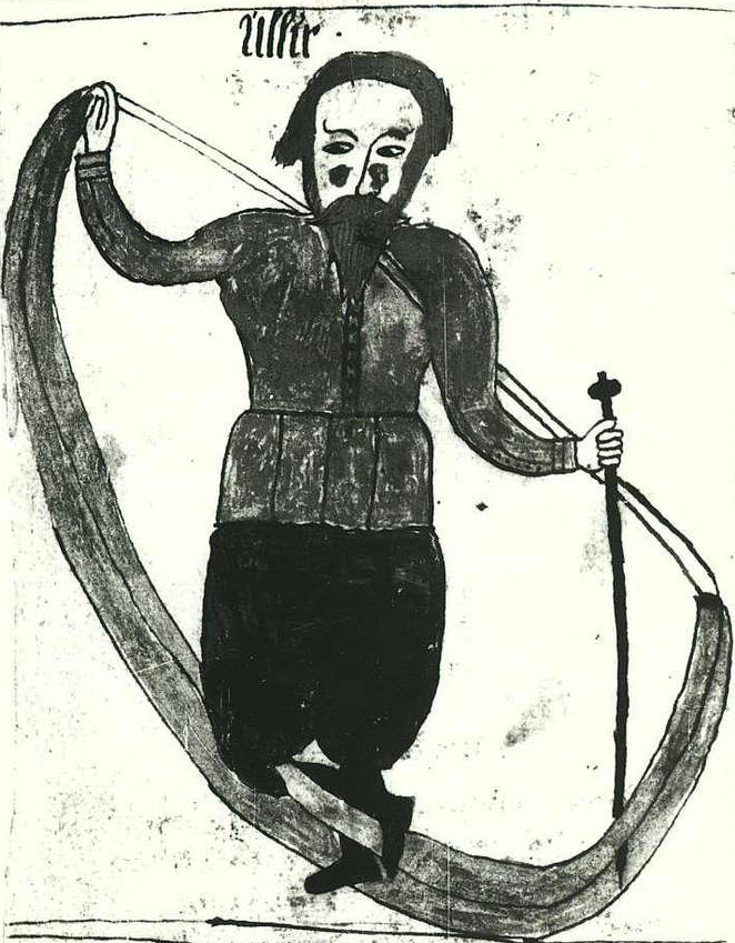 An illustration of the Norse god Ullr, from an Icelandic 17th century manuscript. A scan of a black and white photography.